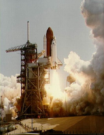 Launch view of the Space Shuttle Columbia for the STS-4 mission. In this view, Columbia's attached solid rocket boosters fire to lift the orbiter off Launch Pad 39A